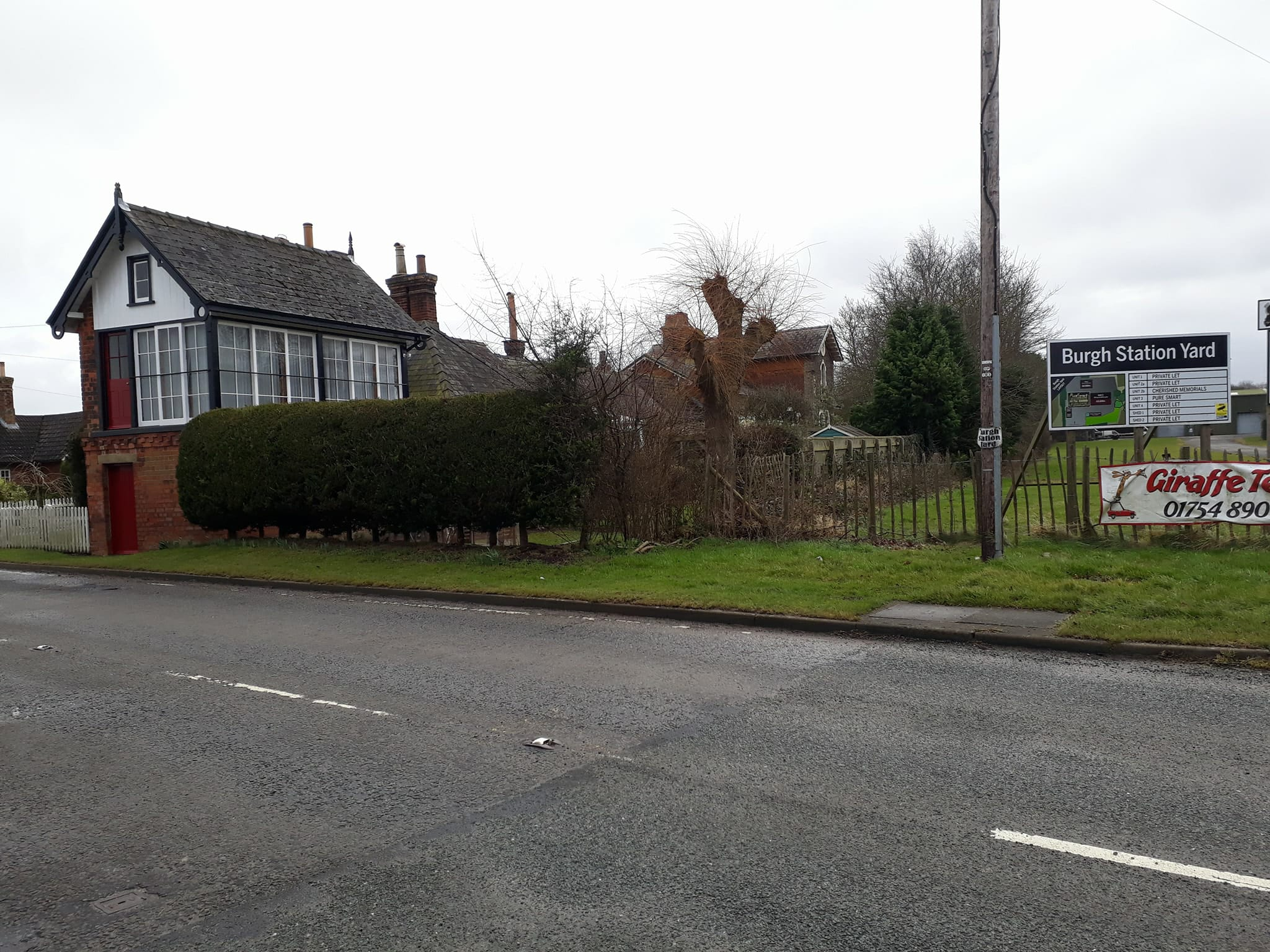 My own.